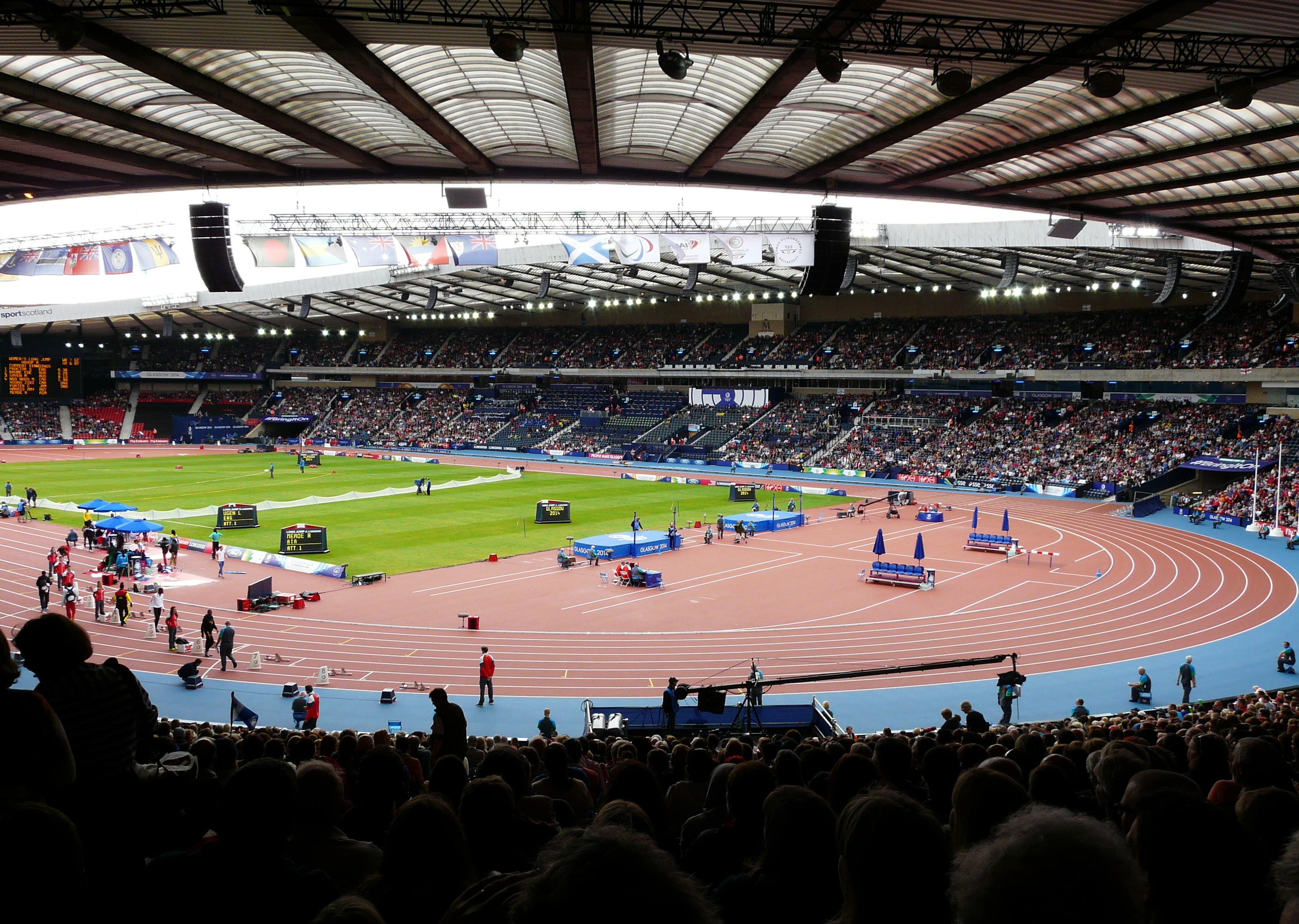 Hampden Park Glasgow Commonwealth Games Day 7 Athletics Morning Session Wednesday 30th July 2014